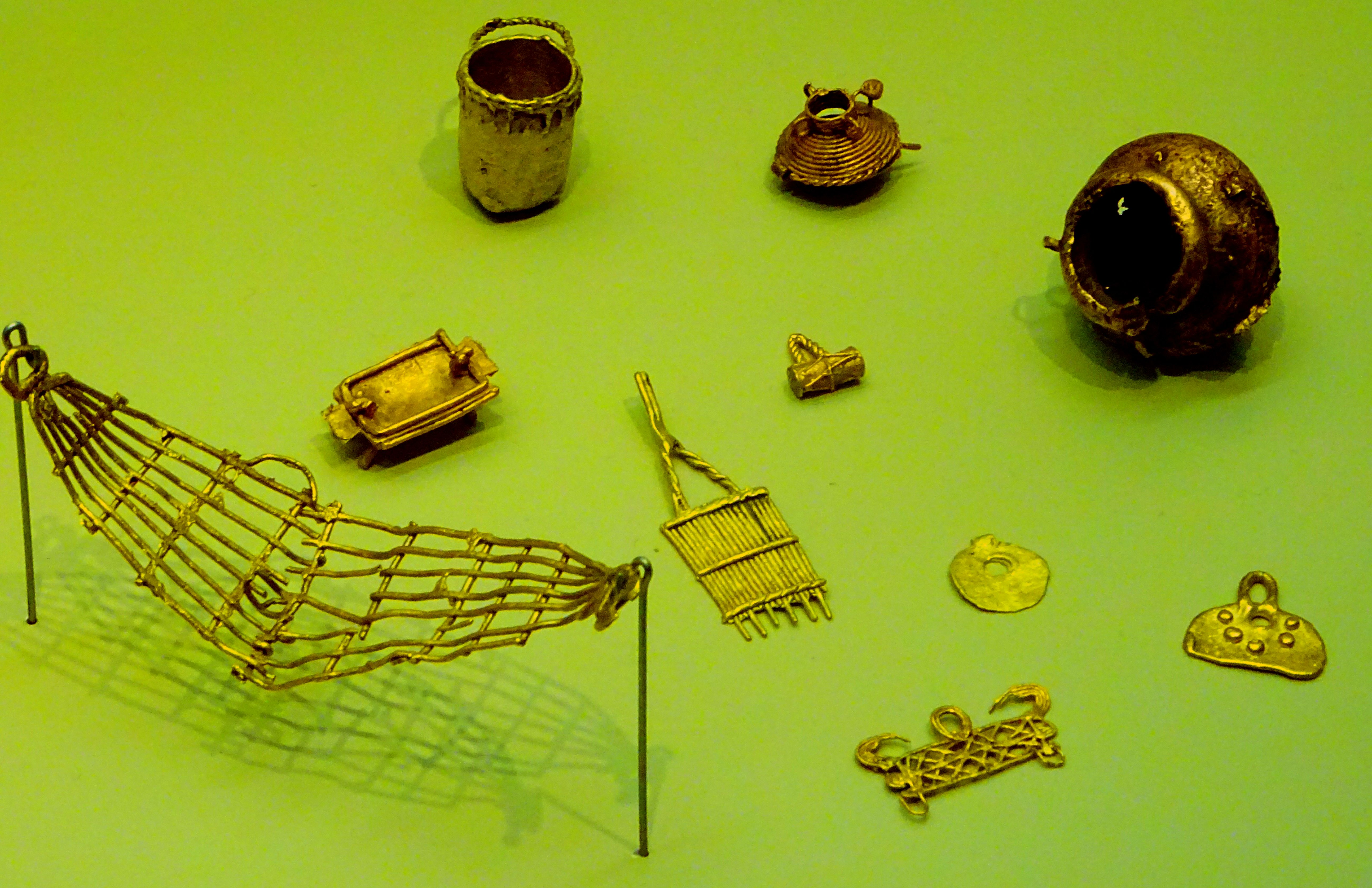 Fine golden figures - Muisca - Museo del Oro / Gold Museum - Bogotá